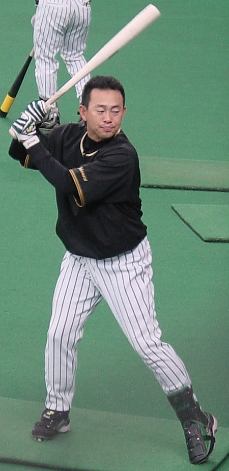 Former professional baseball player Yutaka Nakamura, then playing for the Hanshin Tigers, at Seibu Dome